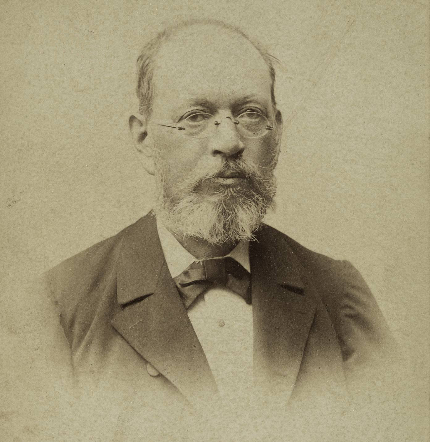 Wincenty Wacław Rychling (1841–1896), photo by Juliusz Mien (1842–1905), ca.1890.